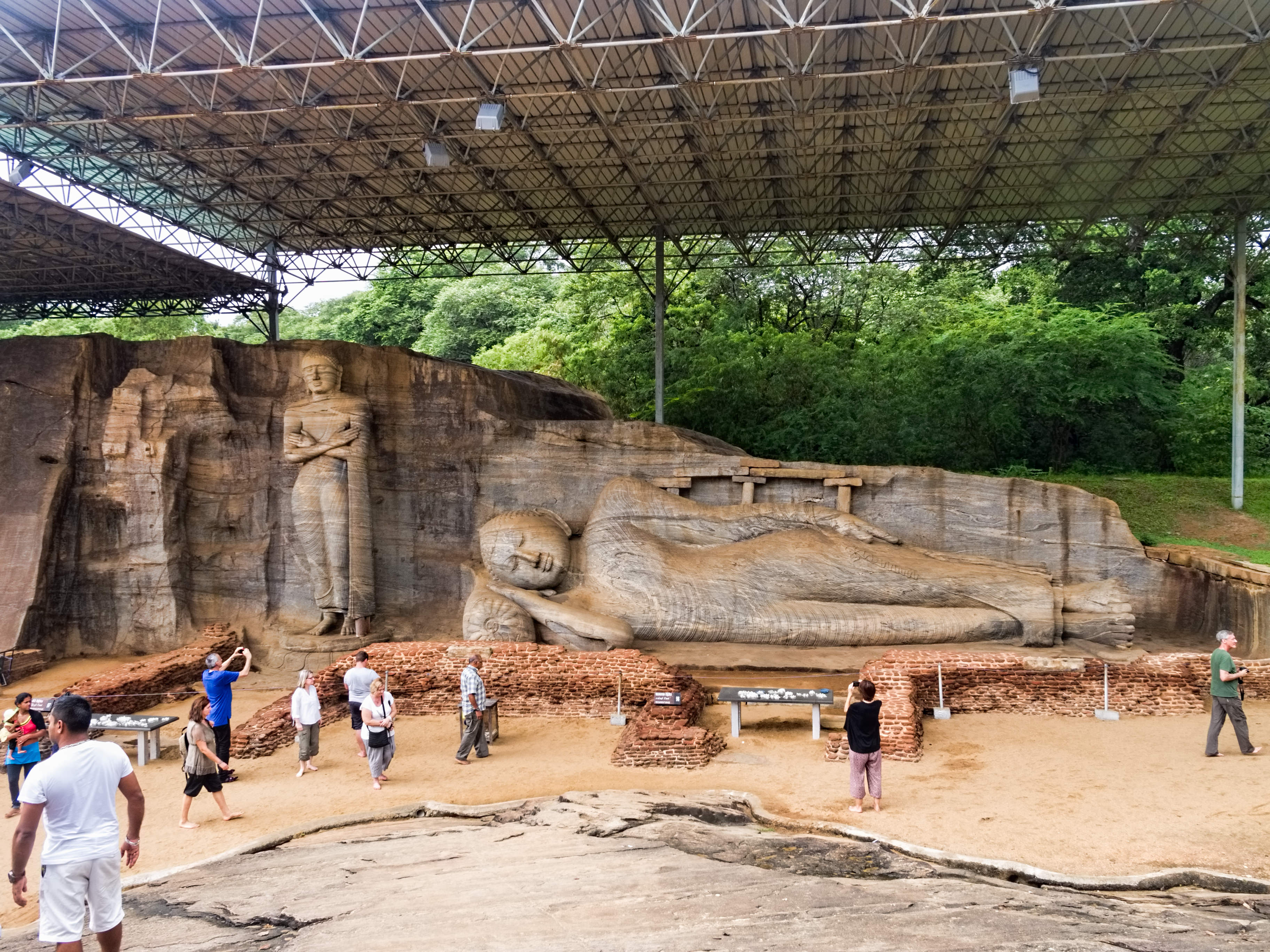 The Gal Vihara consists of four Buddha statues carved from one long slab of granite jutting up from the ground. The finest of the series is the standing Buddha which is 7m/23ft tall. The reclining Buddha is 14m/46ft long. Two sitting Buddhas located out of the frame off to the left complete the quartet. At one time each statue had its own separate enclosure. The shrine is open-air today but visitors must remove their shoes if they wish to approach up close. The site is part of a monastery established by King Parakramabahu I who ruled from 1153 to 1186. Polonnaruwa became the second ancient Sinhalese capital (replacing Anuradhapura) after King Vijayabahu I defeated Tamil Chola invaders from southern India in 1070 to reunite the country. Lavish public works made the city a great Asian capital. Starting in the 13th century, a series of weak rulers and deterioration of the irrigation system led to a decline in Polonnaruwa’s power and appeal. King Vijayabahu III, who reigned from 1232 to 1236, moved the capital of his reduced kingdom to Dambadeniya. The Ancient City of Polonnaruwa was declared a UNESCO World Heritage Site in 1982. On Google Earth: Gal Vihara 7°58'8.61"N, 81° 0'18.83"E